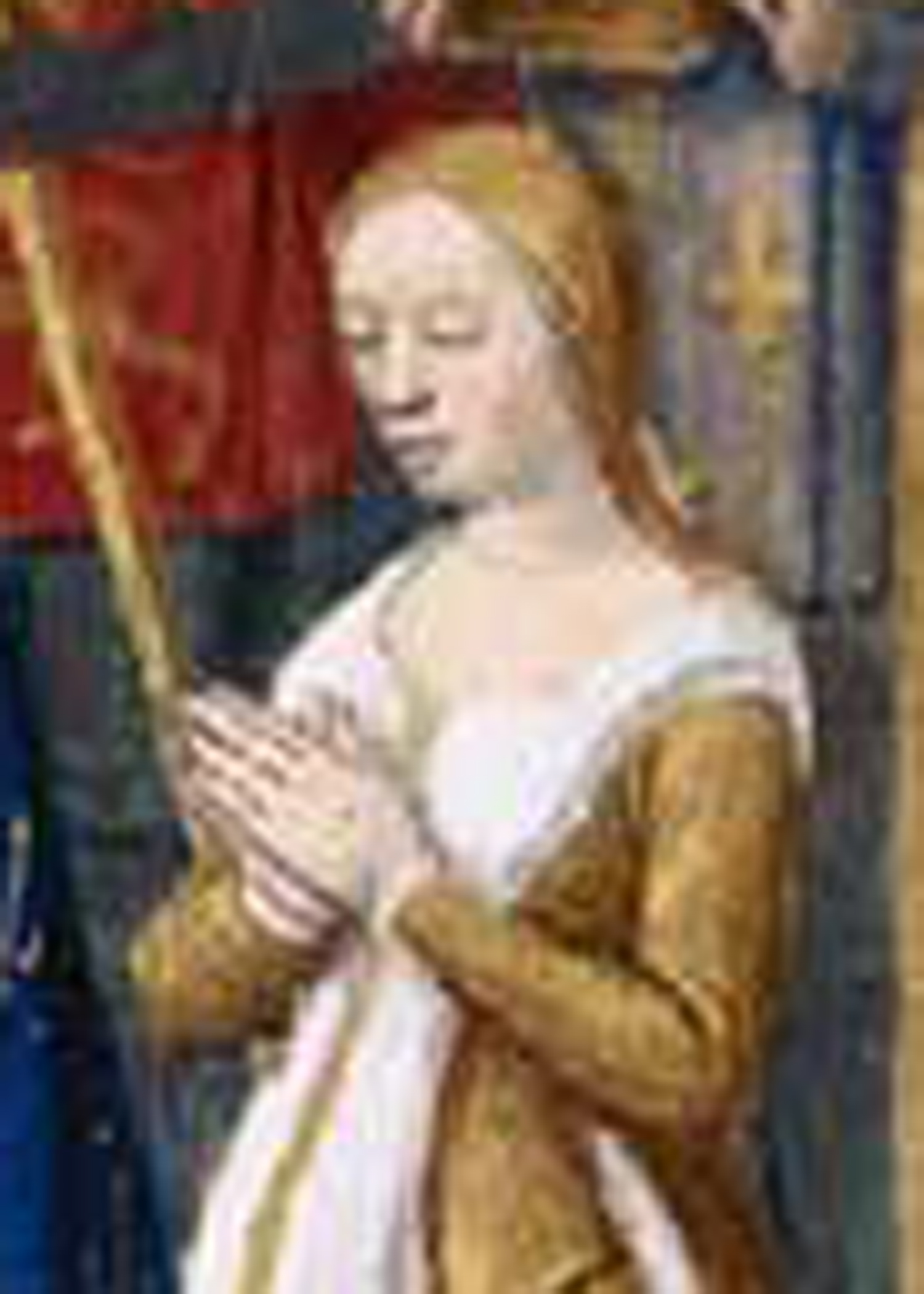 Blanche of Castile